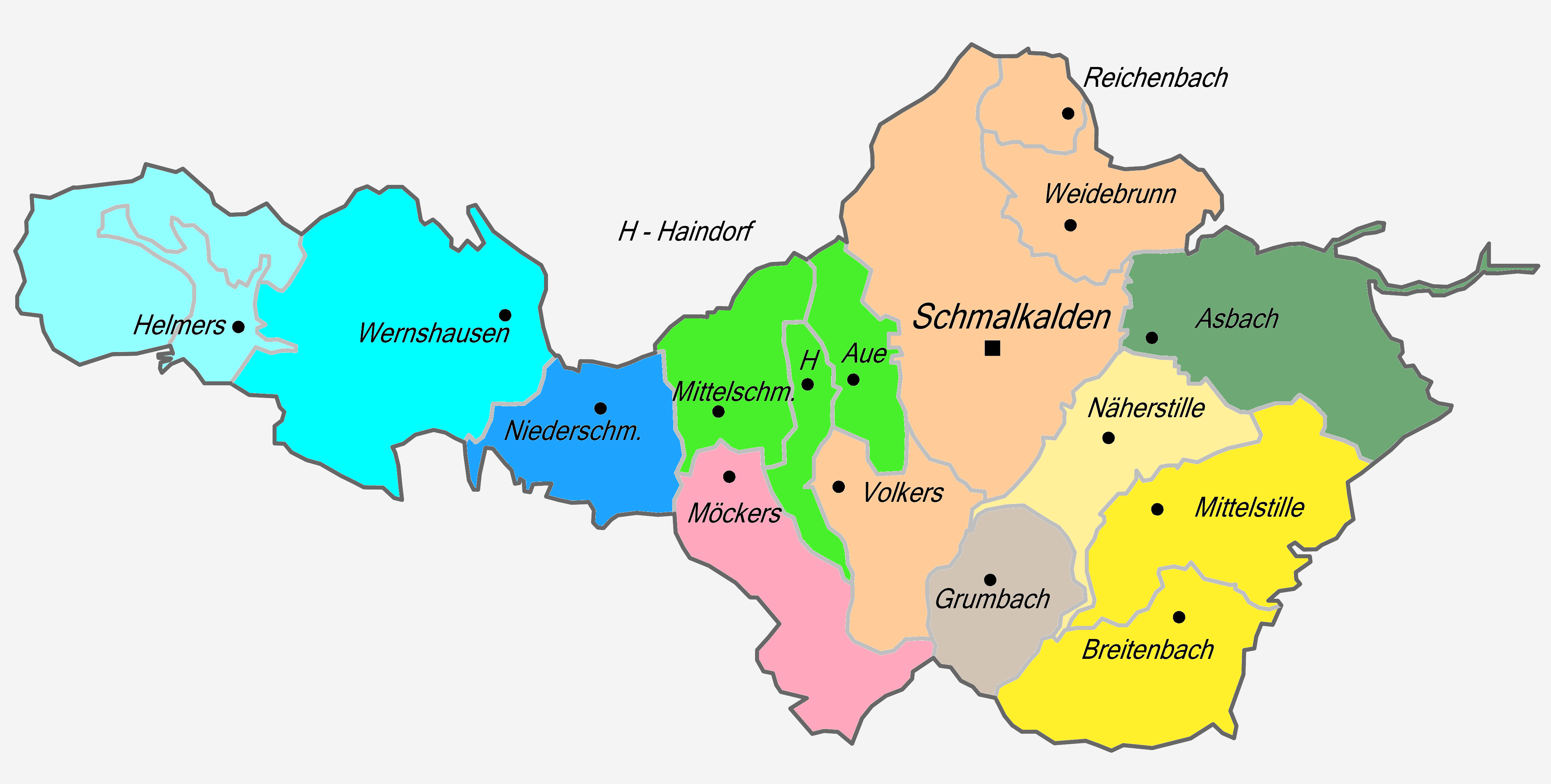 District-Maps of Schmalkalden